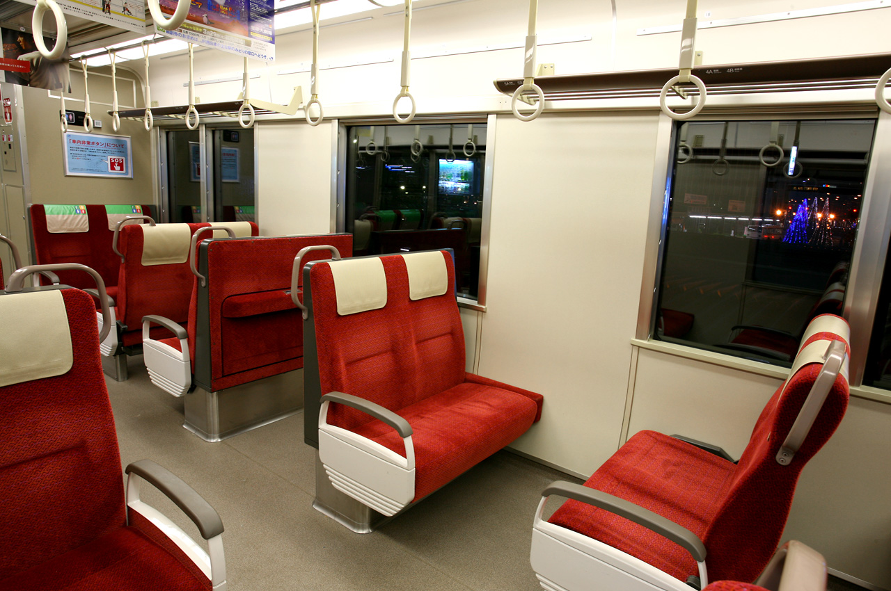 Interior of JR West 125 series EMU Kumoha 125-16